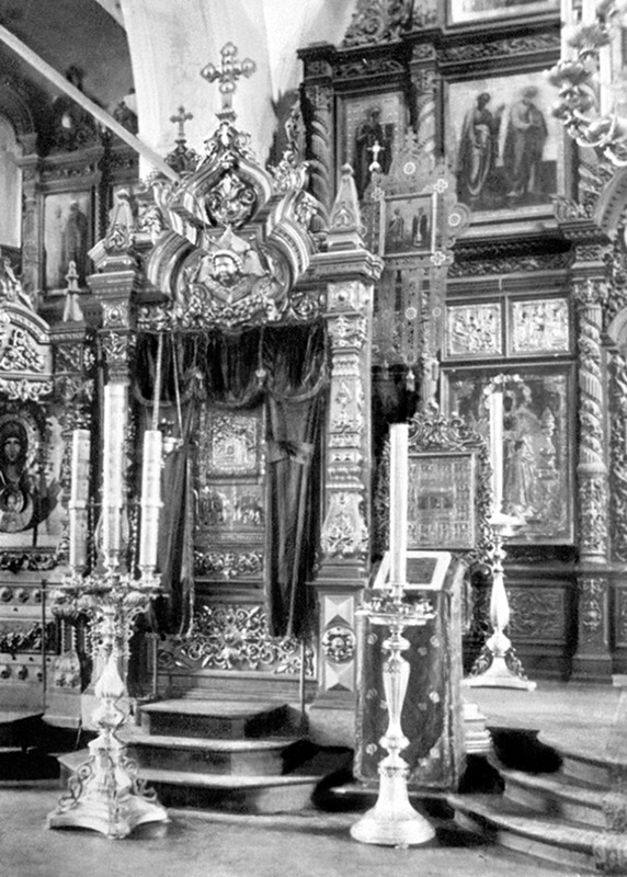 Feodorovskaya Icon of the Mother of God.